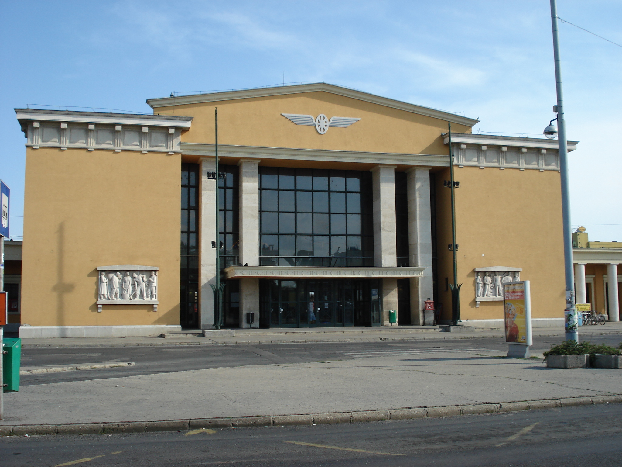 Train station in Székesfehérvár. Taken by David Sallay in June 2007.